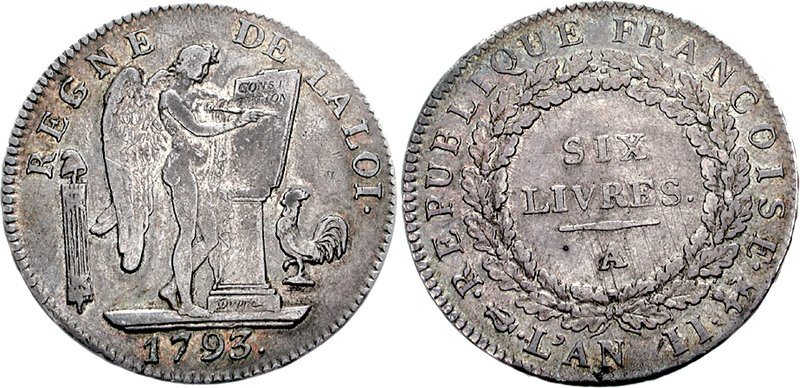 France, Premier République. Convention nationale. 1792-1795. AR Écu de six livres (29.09 g, 6h). Paris mint. Dated 1793. Winged genius of France inscribing CONSTI / TUTION in two lines on tablet set on column, fasces to left, rooster to right SIX / LIVRES. above mintmark, all within laurel wreath. VG 58; Davenport 1336. VF, toned. Augustin Dupré (1748–1833) Alternative names Augustin DupreDescriptionFrench engraverDate of birth/death 6 October 1748 30 January 1833Location of birth/death Saint-Étienne Armentières-en-BrieAuthority control : Q767735 VIAF: 24775347 ISNI: 0000 0000 6653 9499 ULAN: 500014612 LCCN: no90013751 GND: 122203194 WorldCat creator QS:P170,Q767735